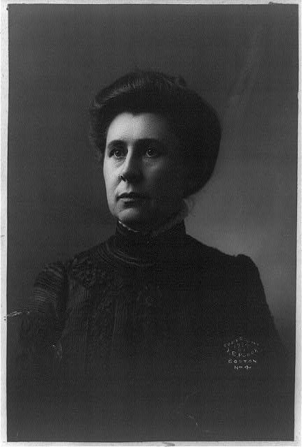 Ida M. Tarbell, American "muckraker" author.